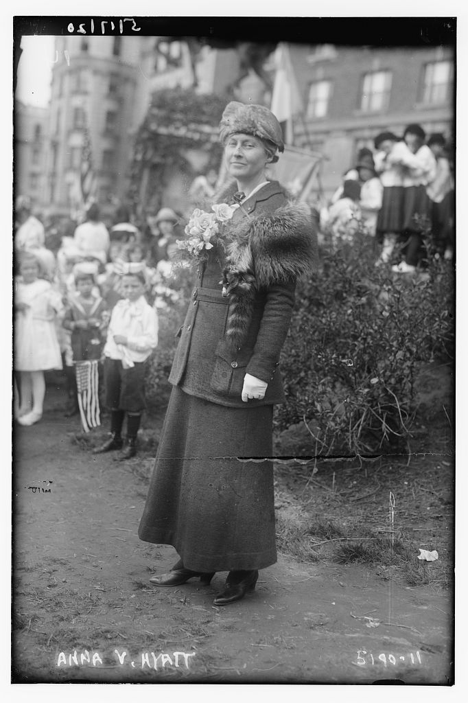 Anna Vaughn Hyatt in 1921